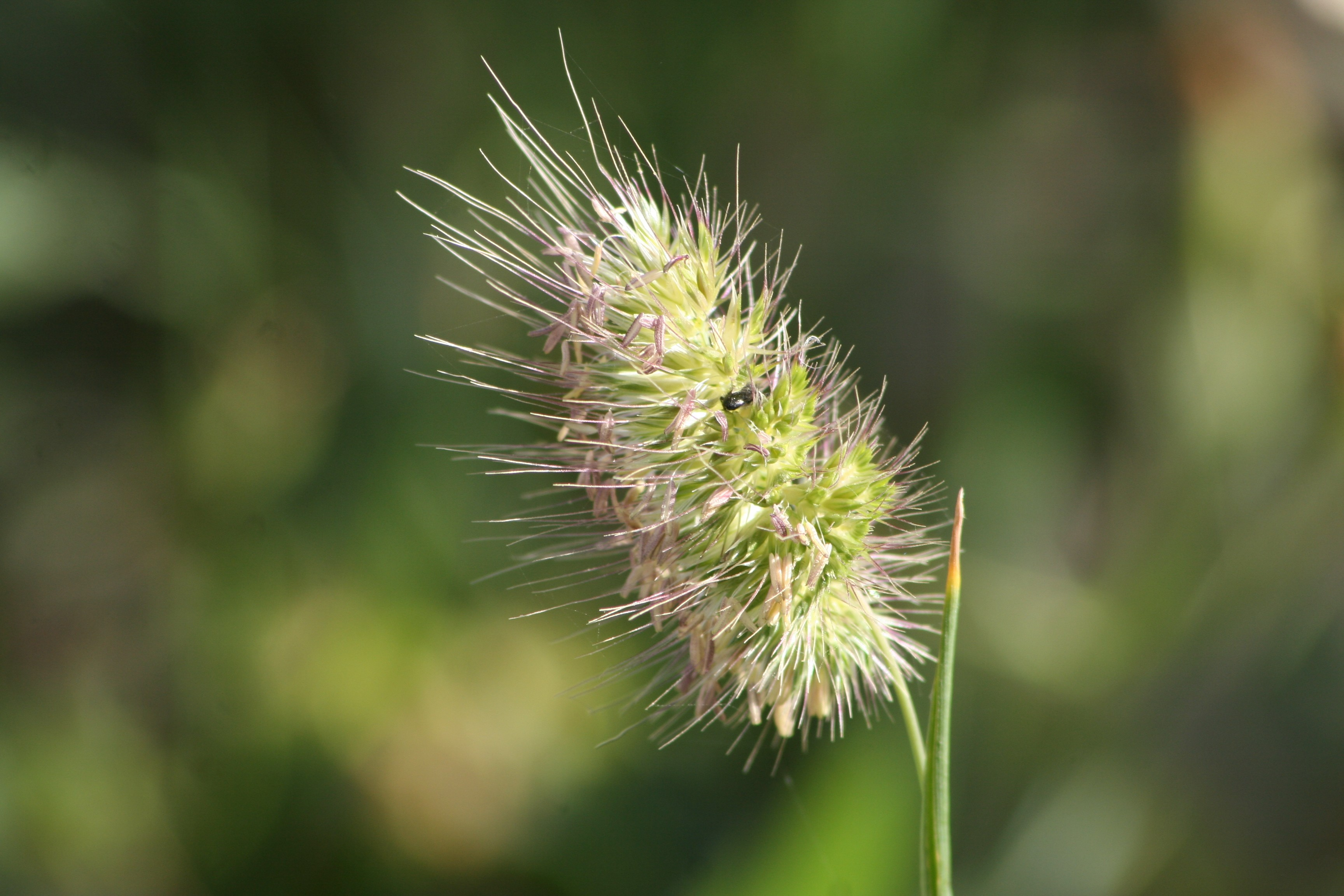 Cynosurus echinatus